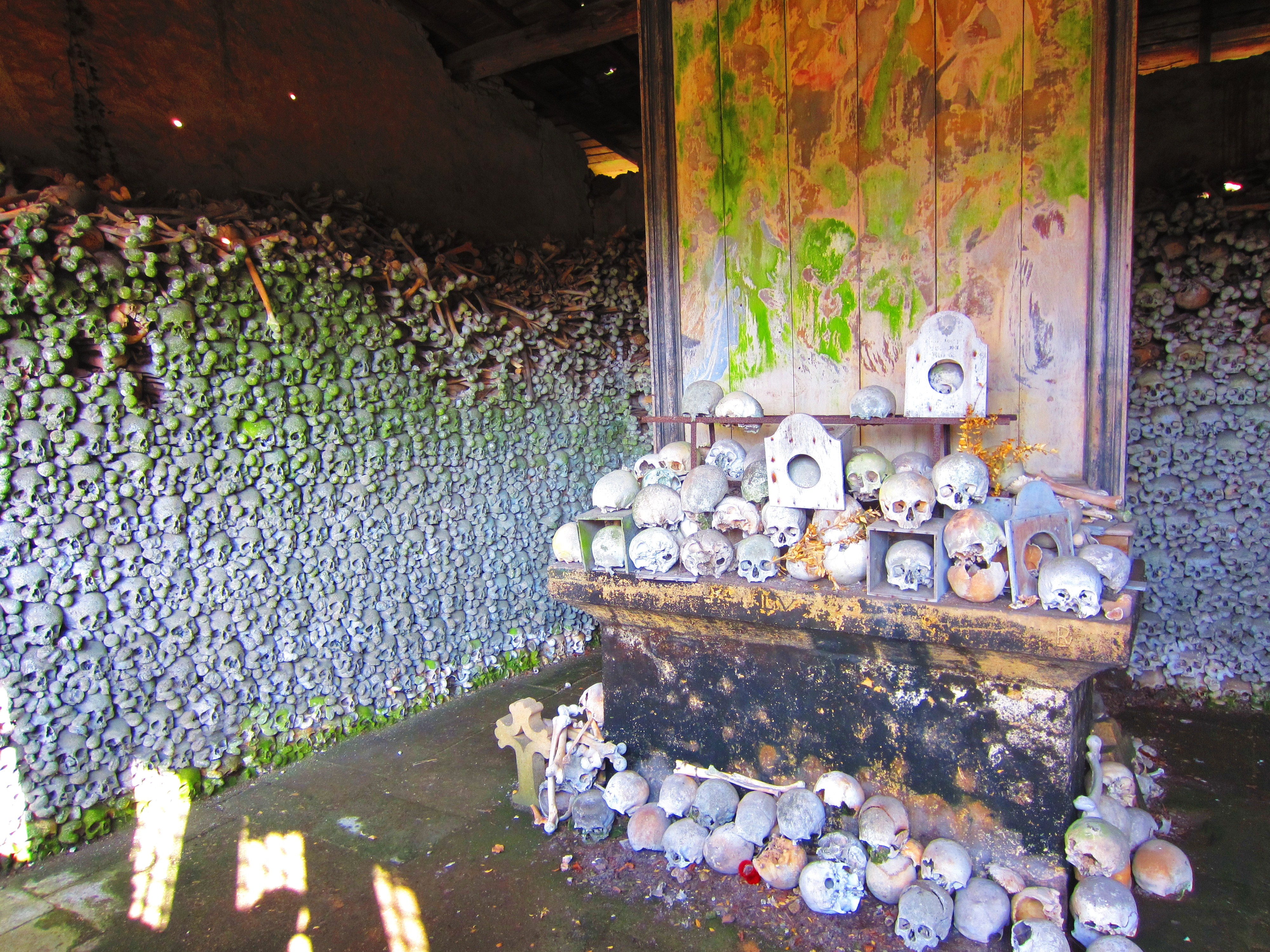 Marville St Hilaire ossuaire